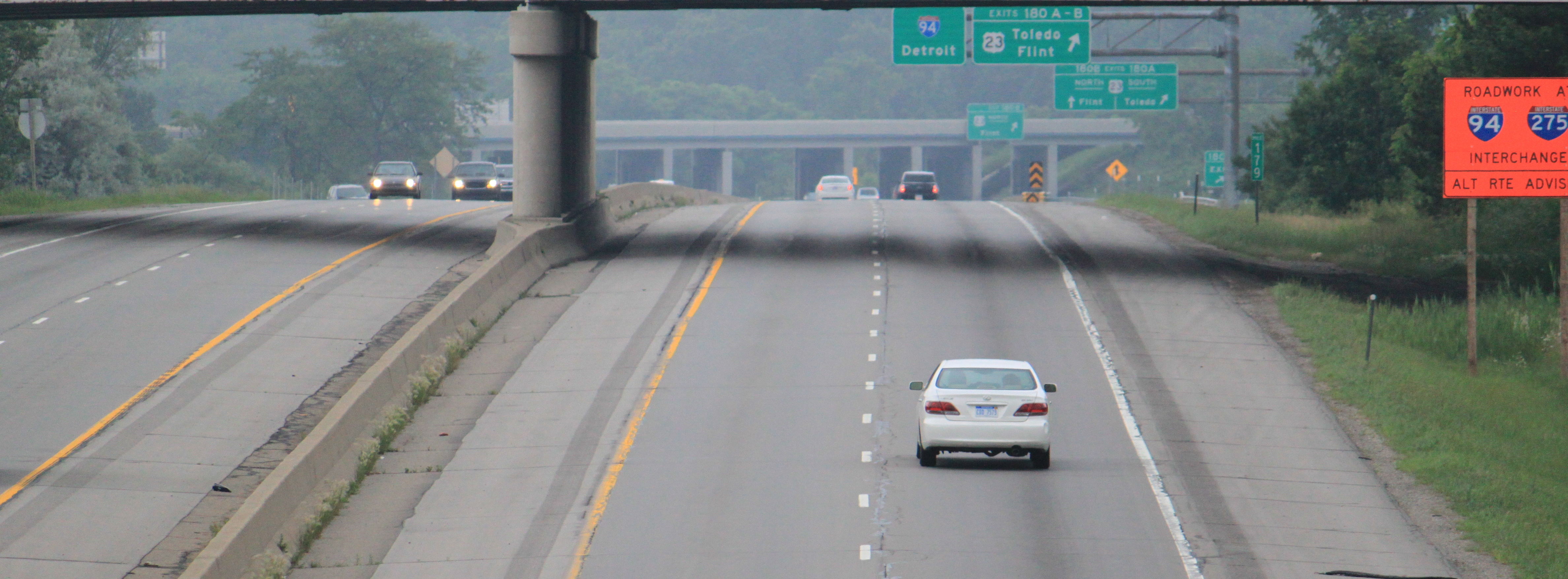 Interstate 94 and US Highway 23 interchange in Pittsfield Township, Michigan, from a vantage point on on eastbound I-94